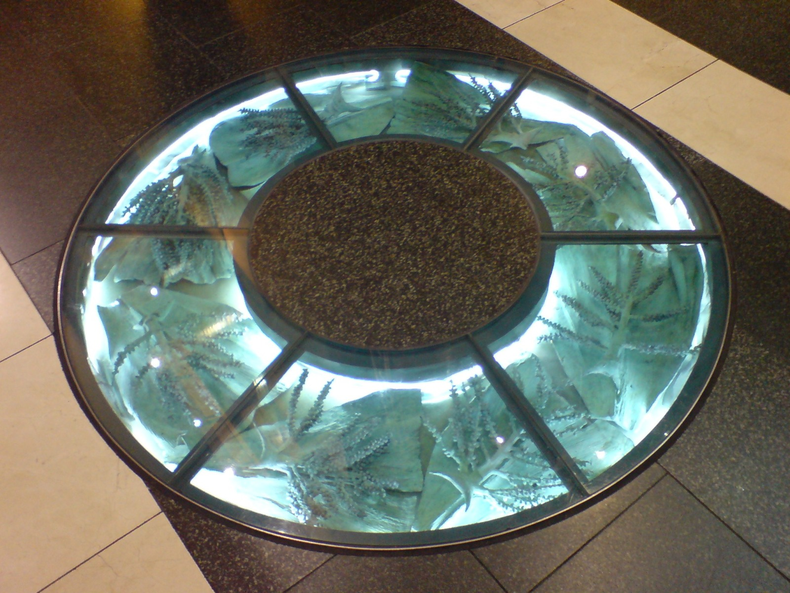 A glass floor design in SkyCity Auckland, Auckland City, New Zealand.